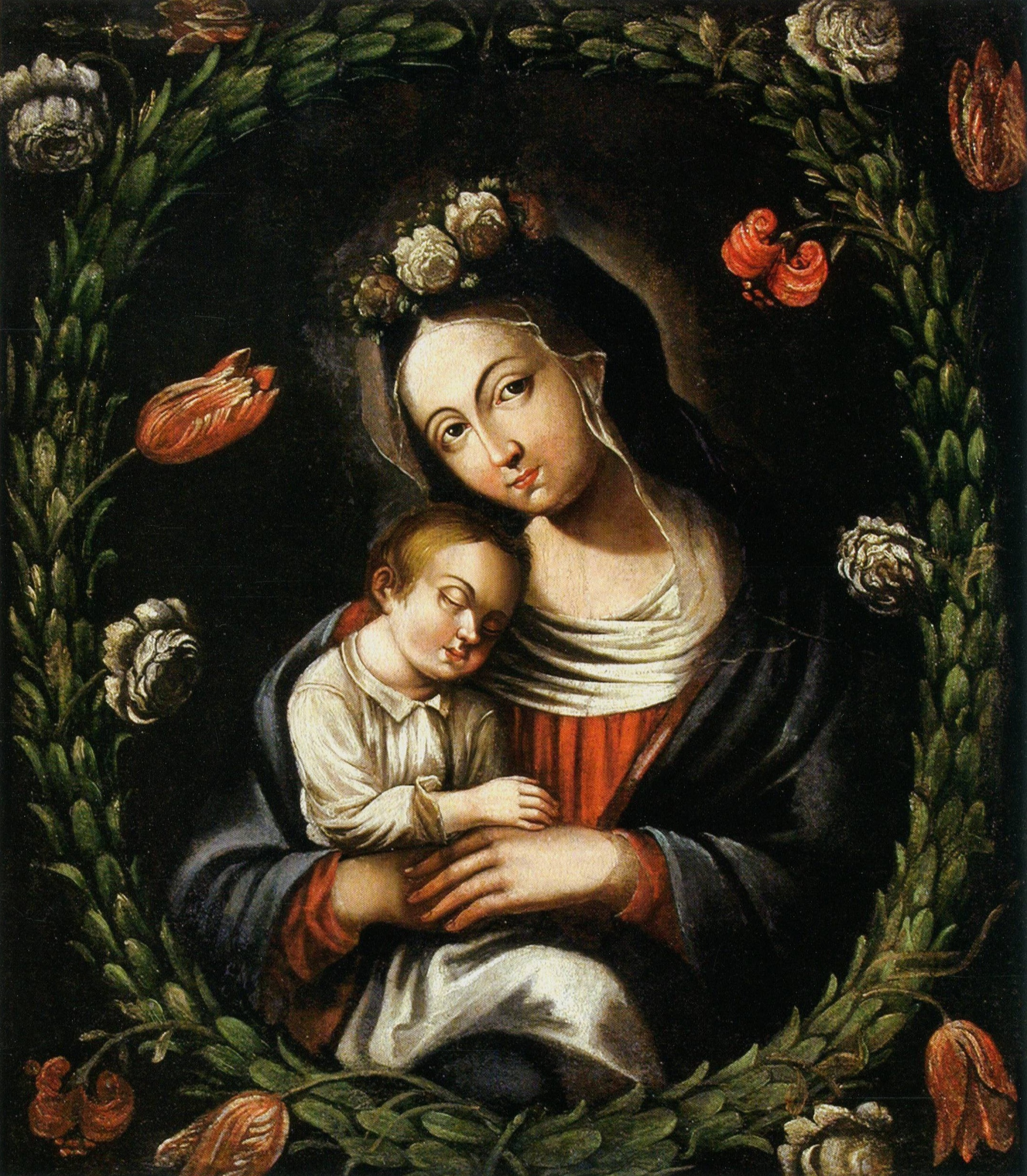 THE HOLY VIRGIN AND CHILD IN WREATH. Late 17th c. Canvas, oil. 83x70. The Transfiguration Church, Dokshytsy, Vitsiebsk region. Restoration - V. Nikitin.